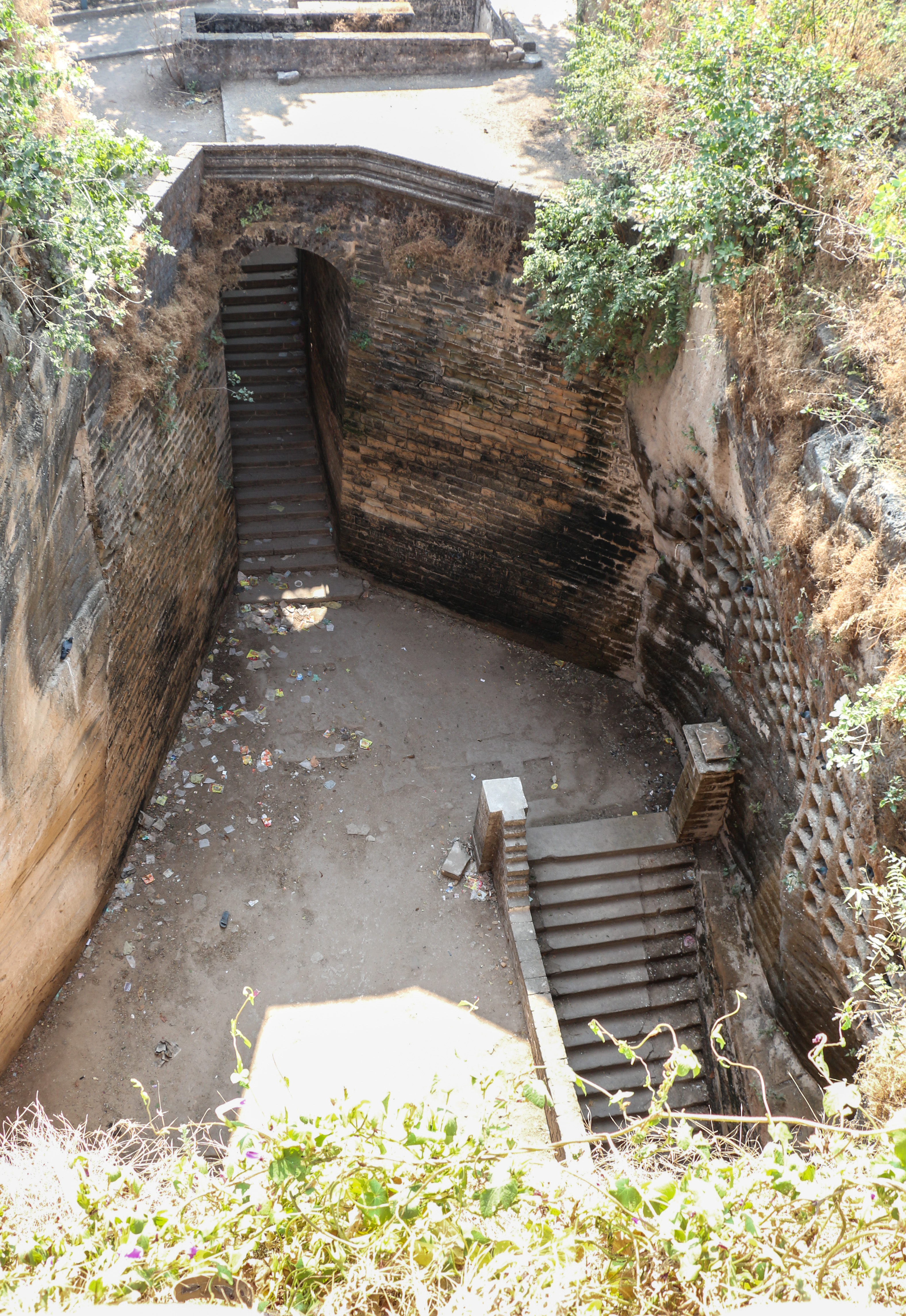 Navghan Kuvo, Uperkot Fort, Junagadh, India